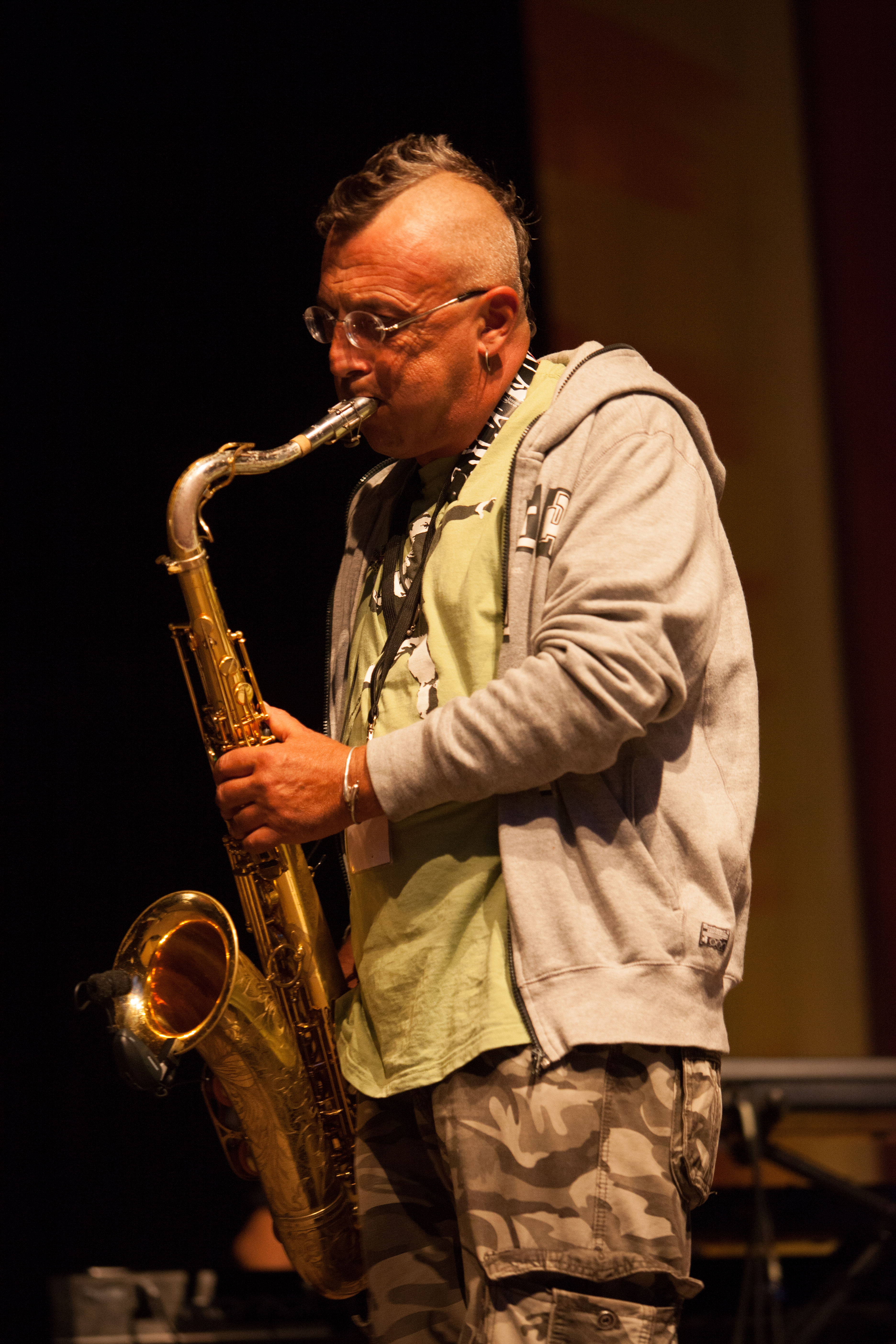 The saxophonist Daniele Sepe at the TFF Rudolstadt 2013 Il sassofonista Daniele Sepe in Rudolstadt 2013